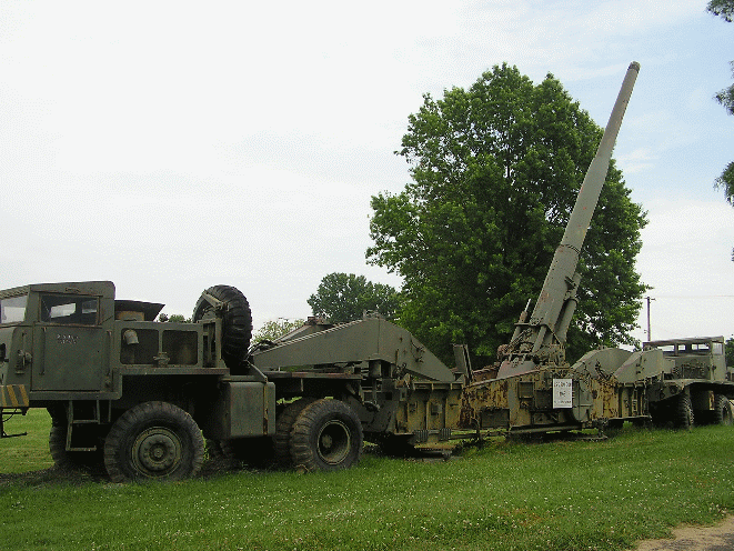 Atomic Cannon